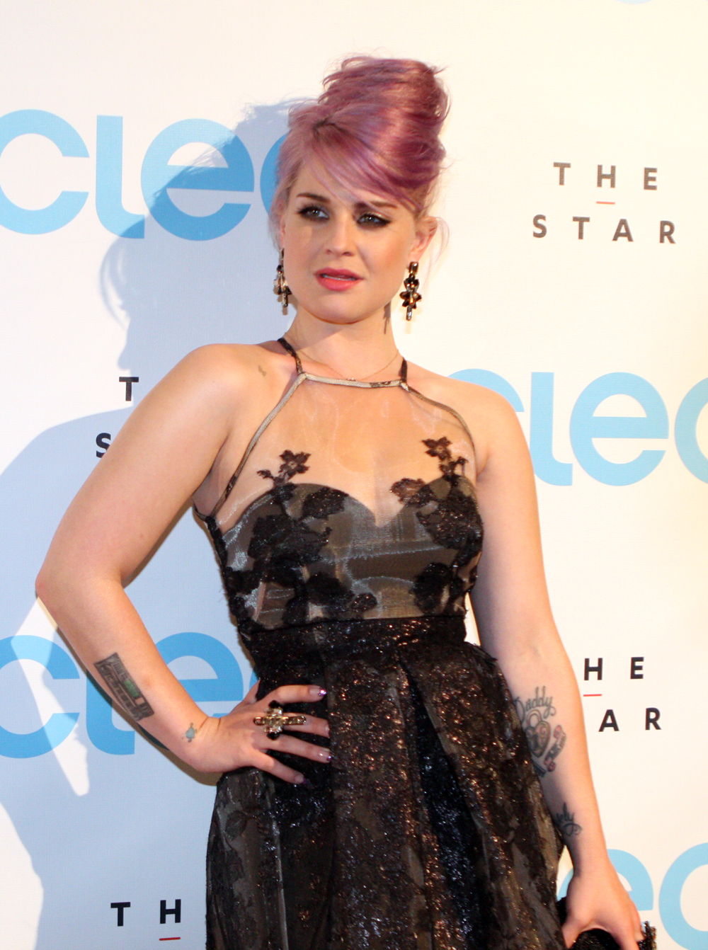 Kelly Osbourne